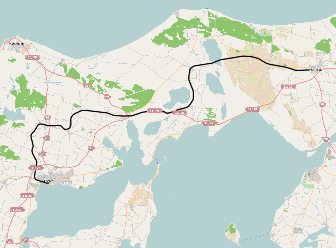 Railway line Thisted - Fjerritslev